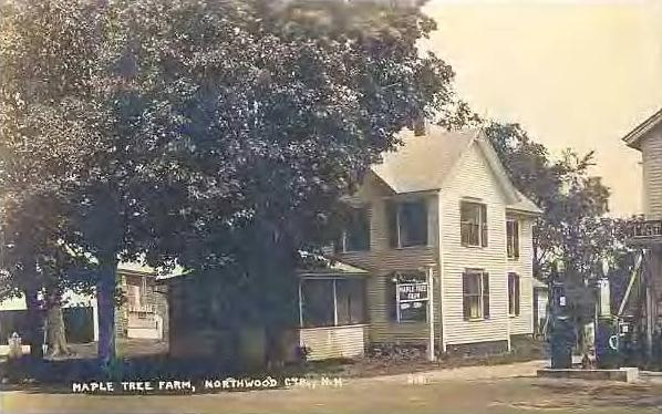 "Maple Tree Farm," Northwood Center, NH; from a 1912 postcard. Current owner: Ginger S McHugh 1988-Present